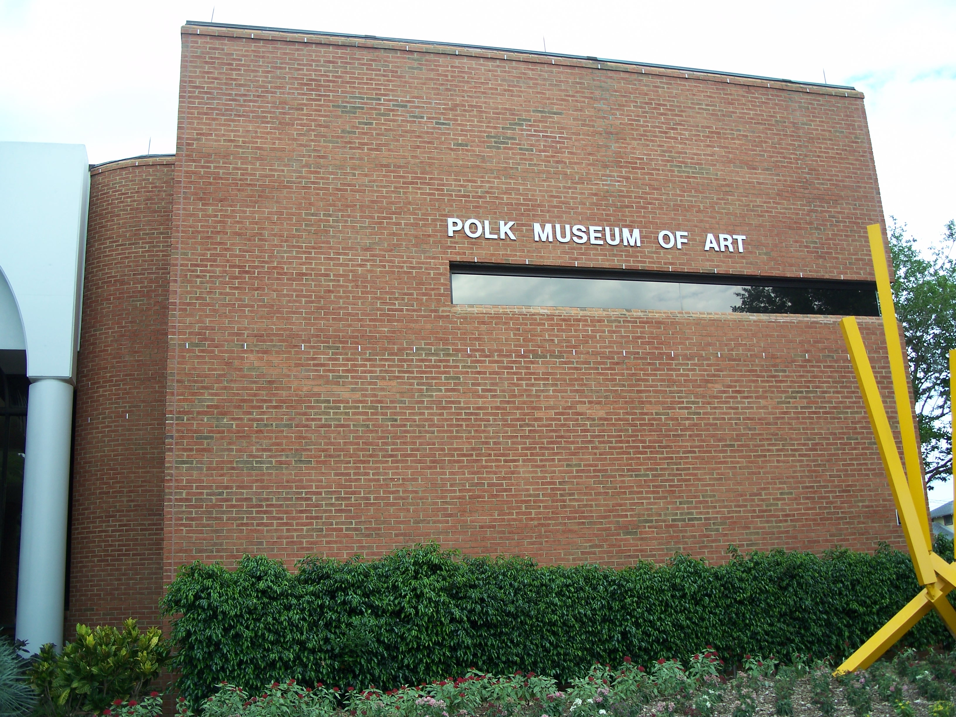 Lakeland: Polk Museum of Art